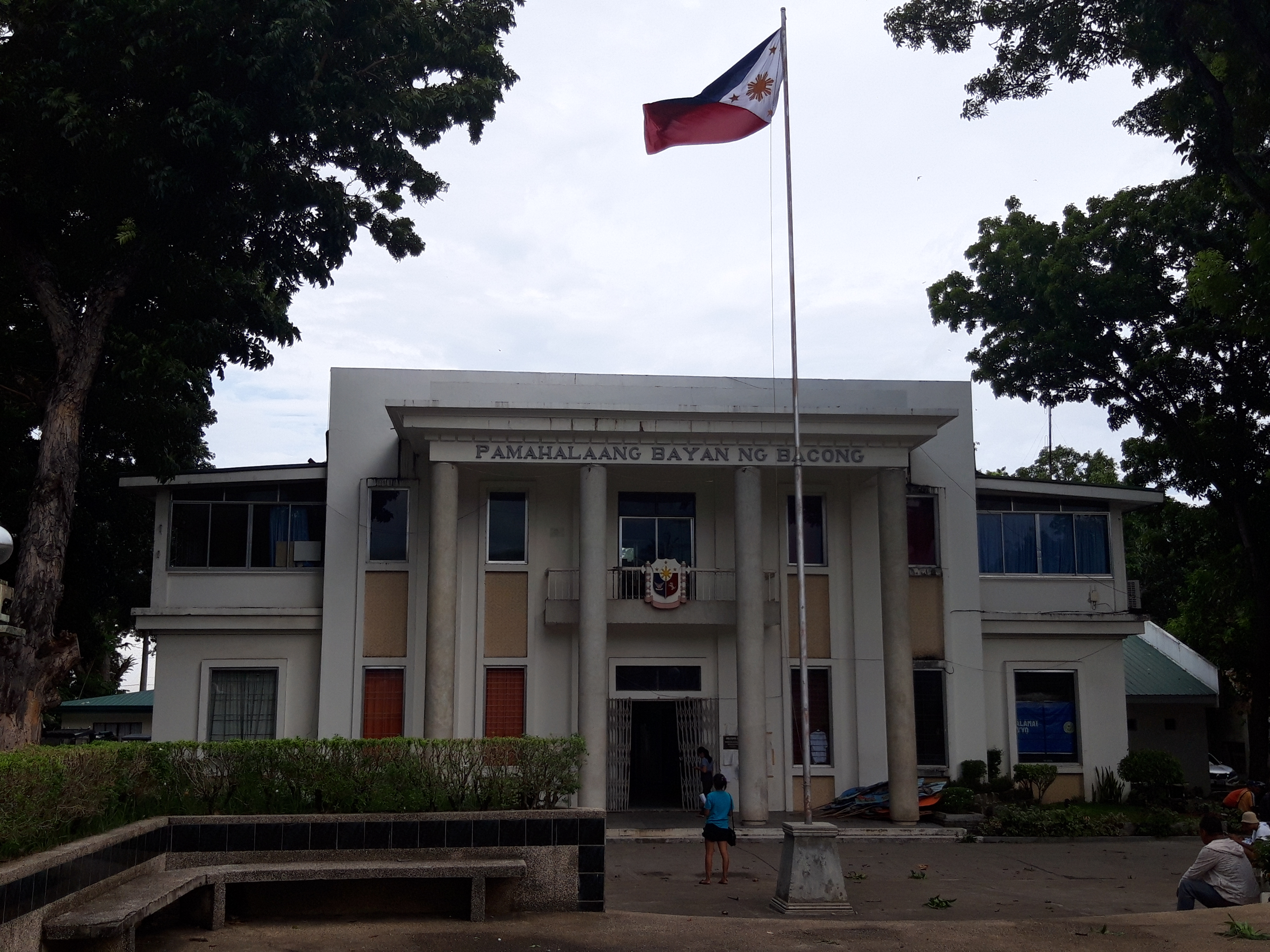 Facade of the Bacong Municipal Hall in Negros Oriental, Philippines